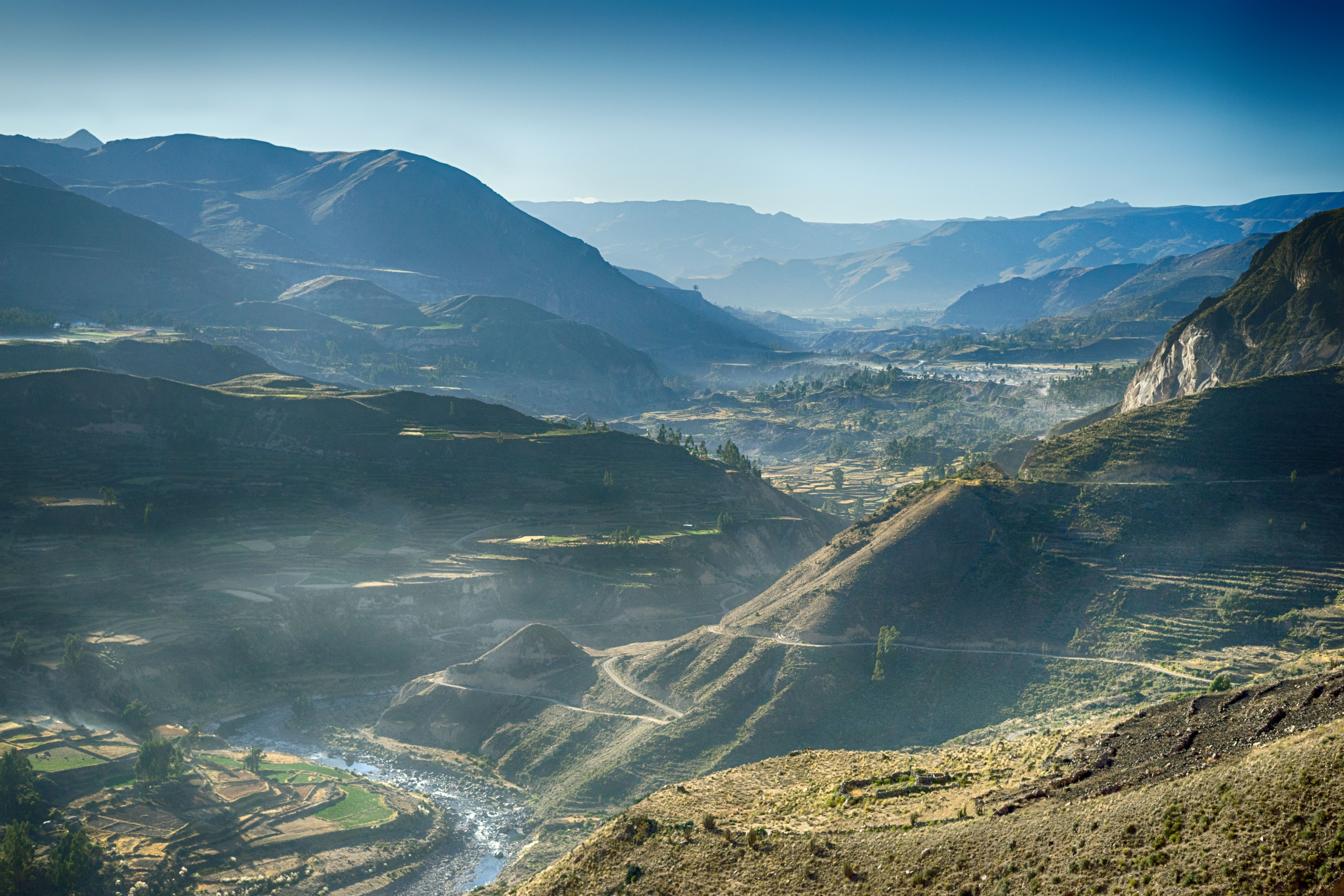 A nice viewpoint point with terraced walls and farmland. There's a tunnel to the right that is a single lane, close to a quarter mile long. It's on a dirt road, no lights, and cut straight through the mountain. I believe the town seen partially is Lari.